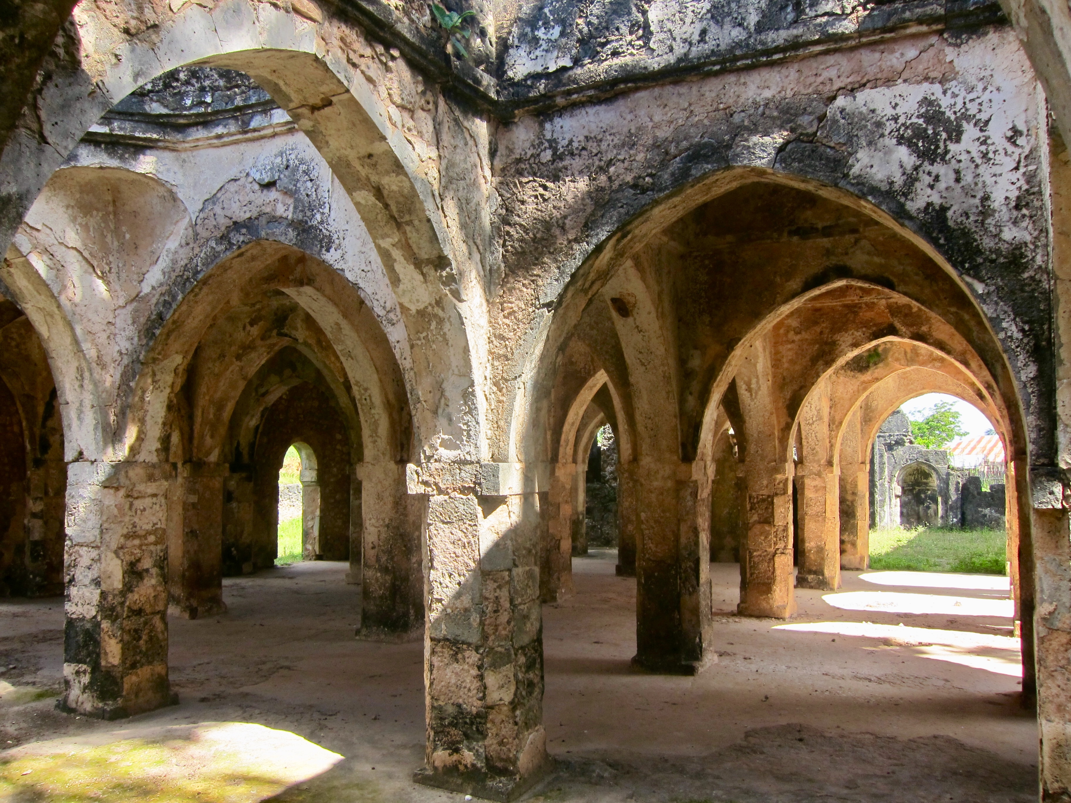 The prayers room inside the extension of the great mosque of Kilwa at Kilwa Kisiwani. It was build as part of the first arabic settlement and nowadays an UNESCO World Heritage Site.